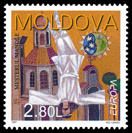 Stamp of Moldova